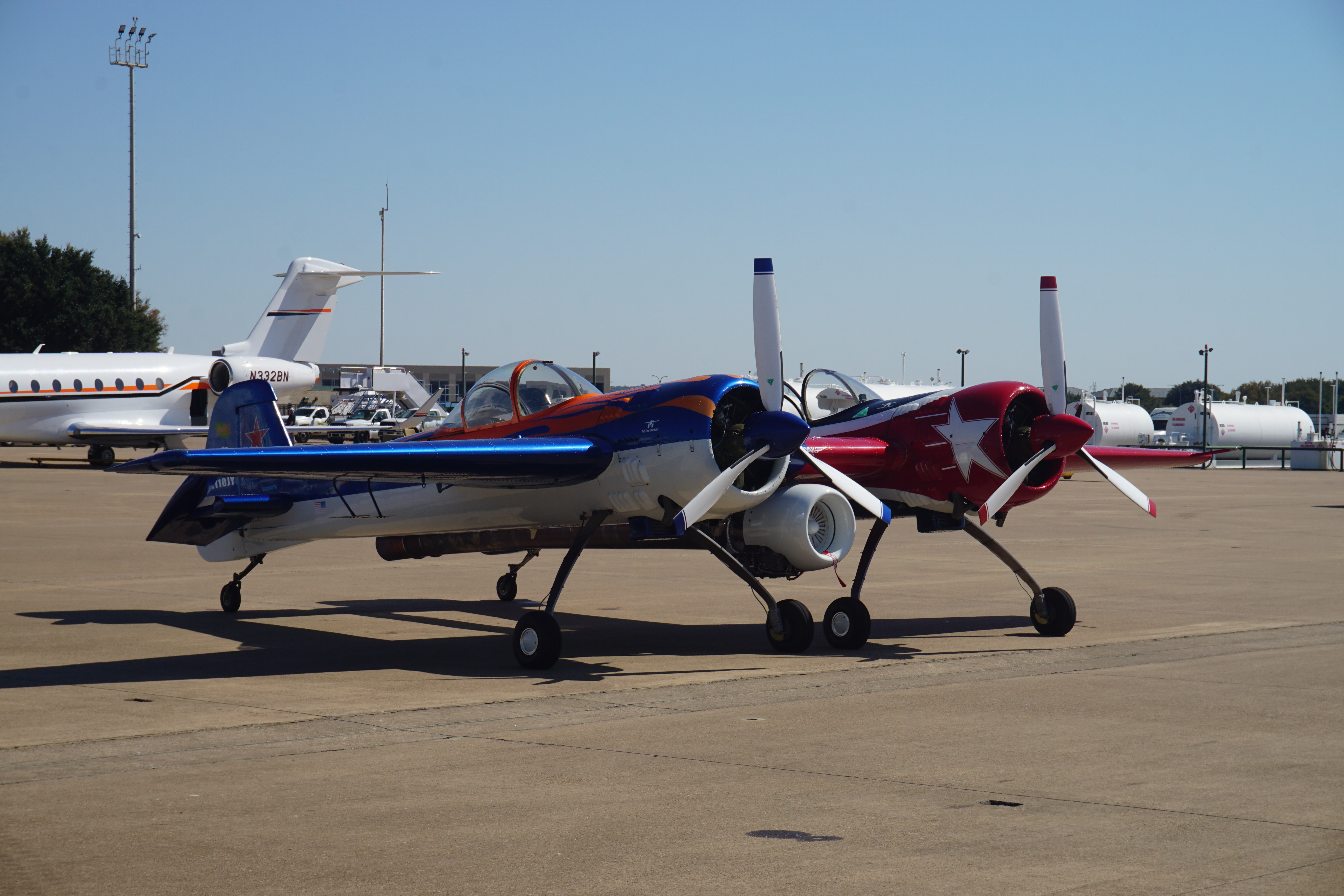 Jeff Boerboon's "Yak-110" (two Yakovlev Yak-55s combined and equipped with a General Electric J85 turbojet engine) at the 2019 Fort Worth Alliance Air Show at Fort Worth Alliance Airport in Fort Worth, Texas (United States).